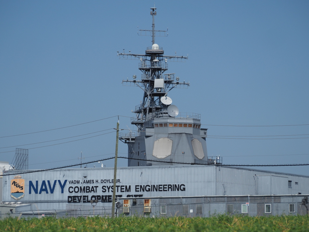 "Cornfield Cruiser" U.S. Navy Vice Admiral James H. Doyle, Jr. Combat System Engineering Development Site, Moorestown, New Jersey